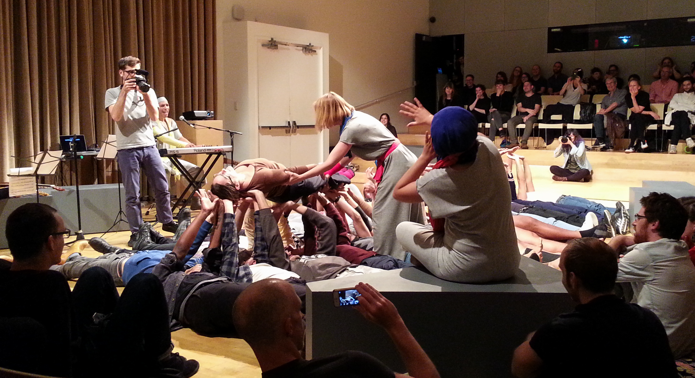 My Barbarian's PoLAAT Intro: Post-Paradise performance at the New Museum in New York. This is the first of three events hosted by the New Museum, as part of My Barbarian's Post-Living Ante-Action Theater (PoLAAT).